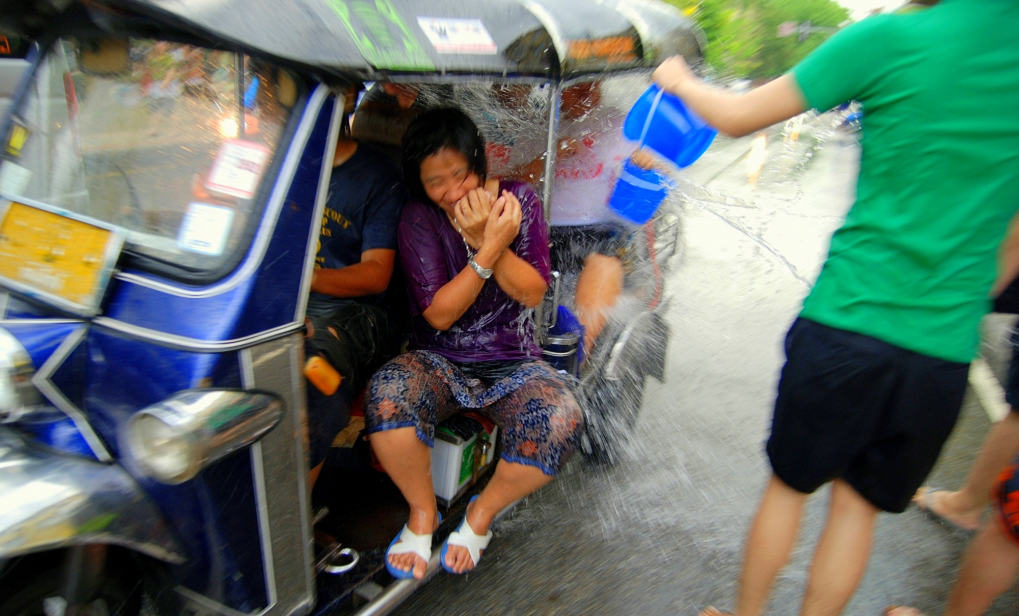 People in a tuk-tuk get targeted during the Songkran festival in Chiang Mai, Thailand